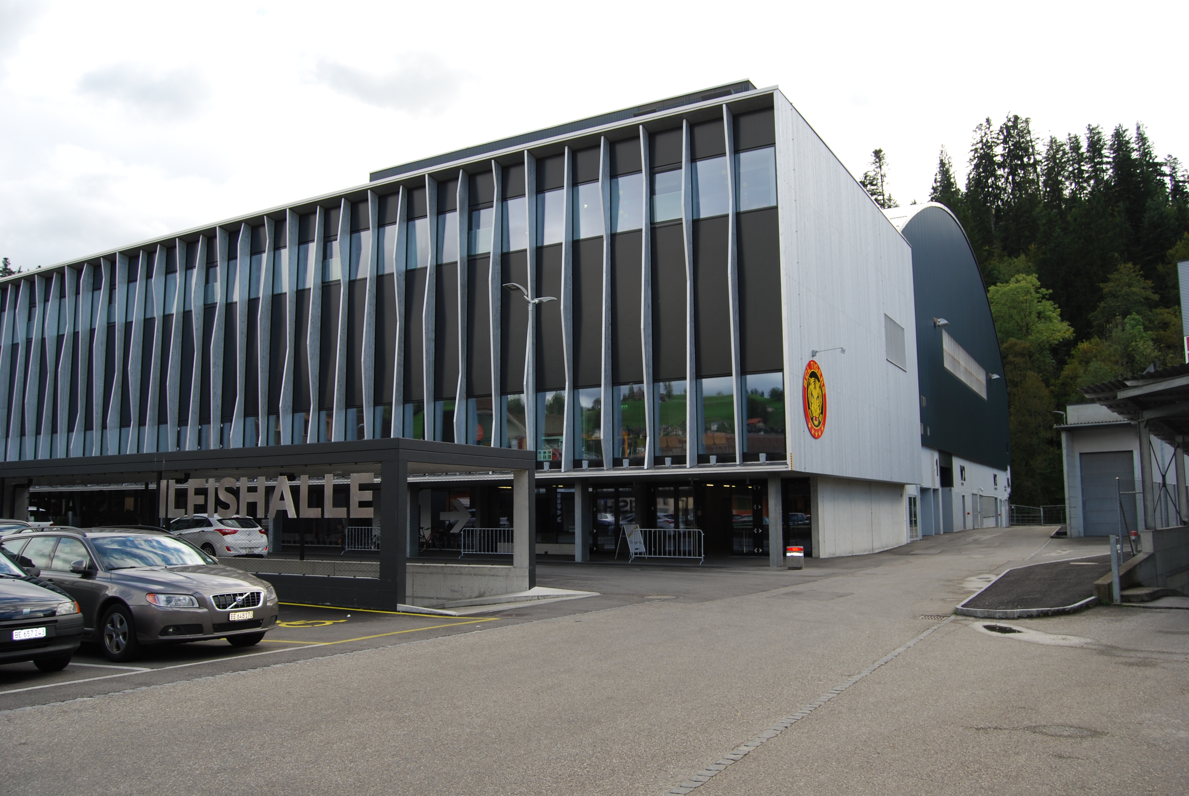 Ilfils hall, ice hockey stade of SCL Tigers at Langnau in the Emme Valley, canton of Bern, Switzerland